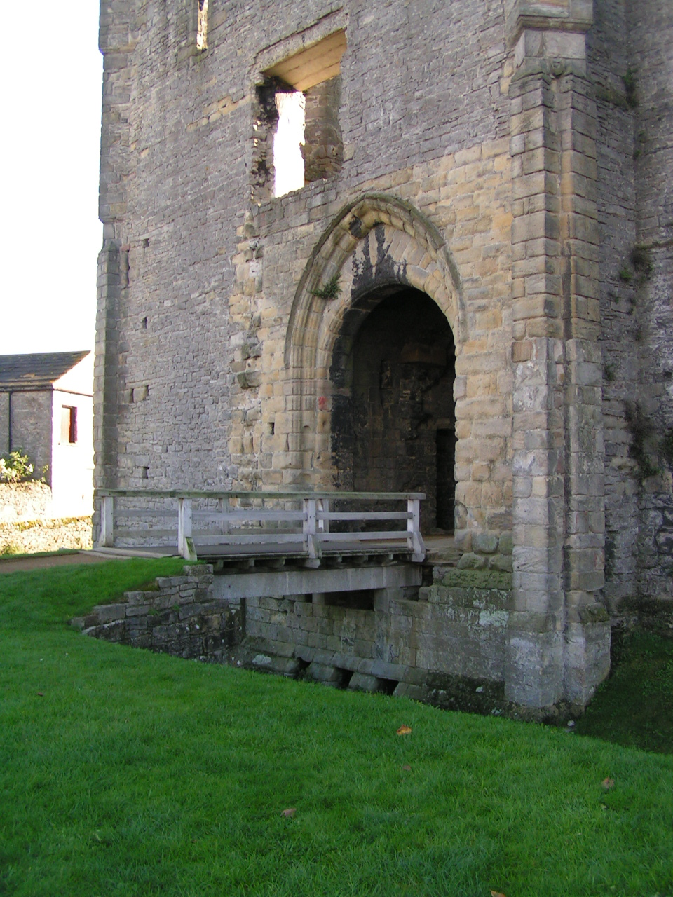 Photo by Chris R, Oct 2005